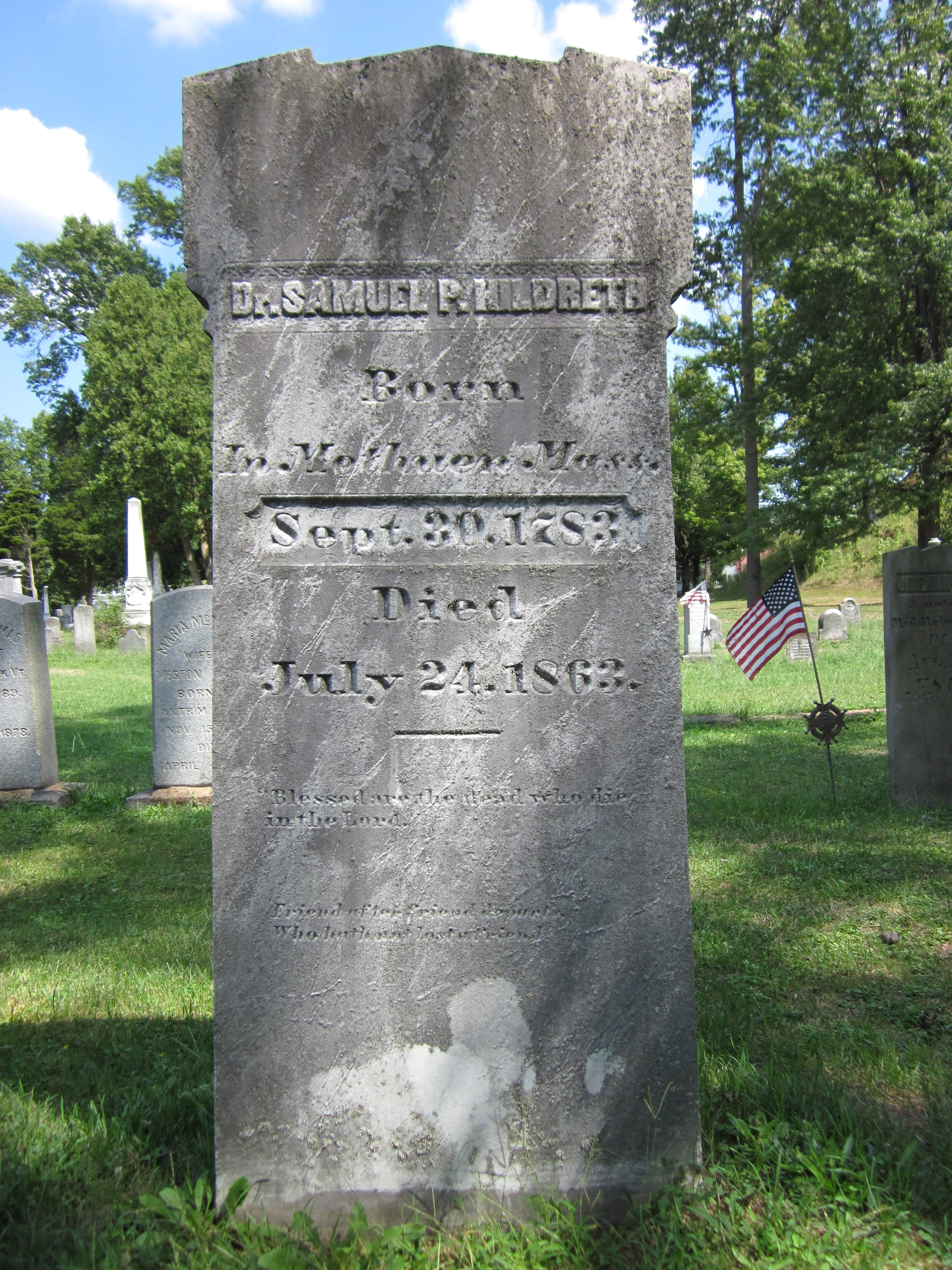 The Samuel Prescott Hildreth marker, Mound Cemetery, September 2012. I took this photograph and I hereby release to the public domain. ColWilliam (talk) 22:20, 12 September 2012 (UTC)